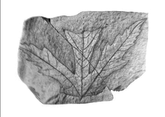 Acer chaneyi, UC Berkeley Museum of Paleontology holotype, UCMP 22862. From: Knowlton FH. (1925). "Flora of the Latah Formation of Spokane, Washington, and Coeur D'Alene, Idaho." United States Geological Survey, Professional Paper 140-A: 17–81. Isolated and contrast enhanced by Peter G Werner, 2 January, 2015.